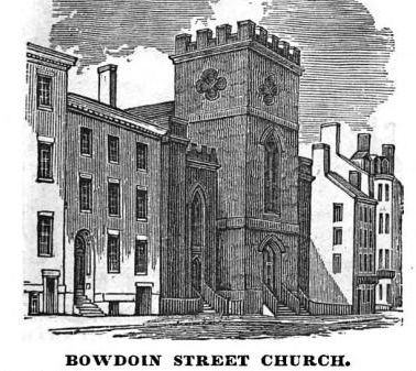 Bowdoin Street Church, Boston